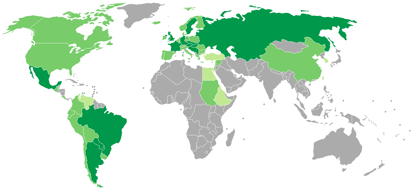 Qualification for the 1958 FIFA World Cup Country didn't participate Country withdrew or entry not accepted by FIFA Country participated in the qualification tournament but failed to qualify Country qualified to the finals